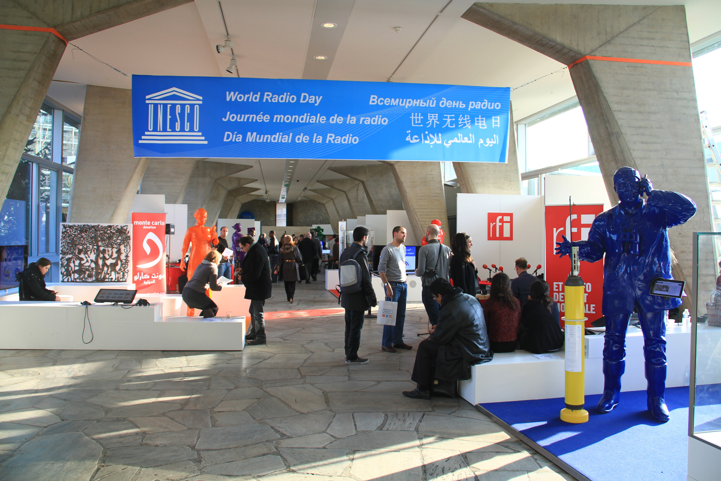 On 13th February 2013, apart from a series of celebrations around the globe, UNESCO promoted activities in its Headquarters, in Paris: round tables, discussions and invited seven international broadcasters to set up studios in its Headquarters.